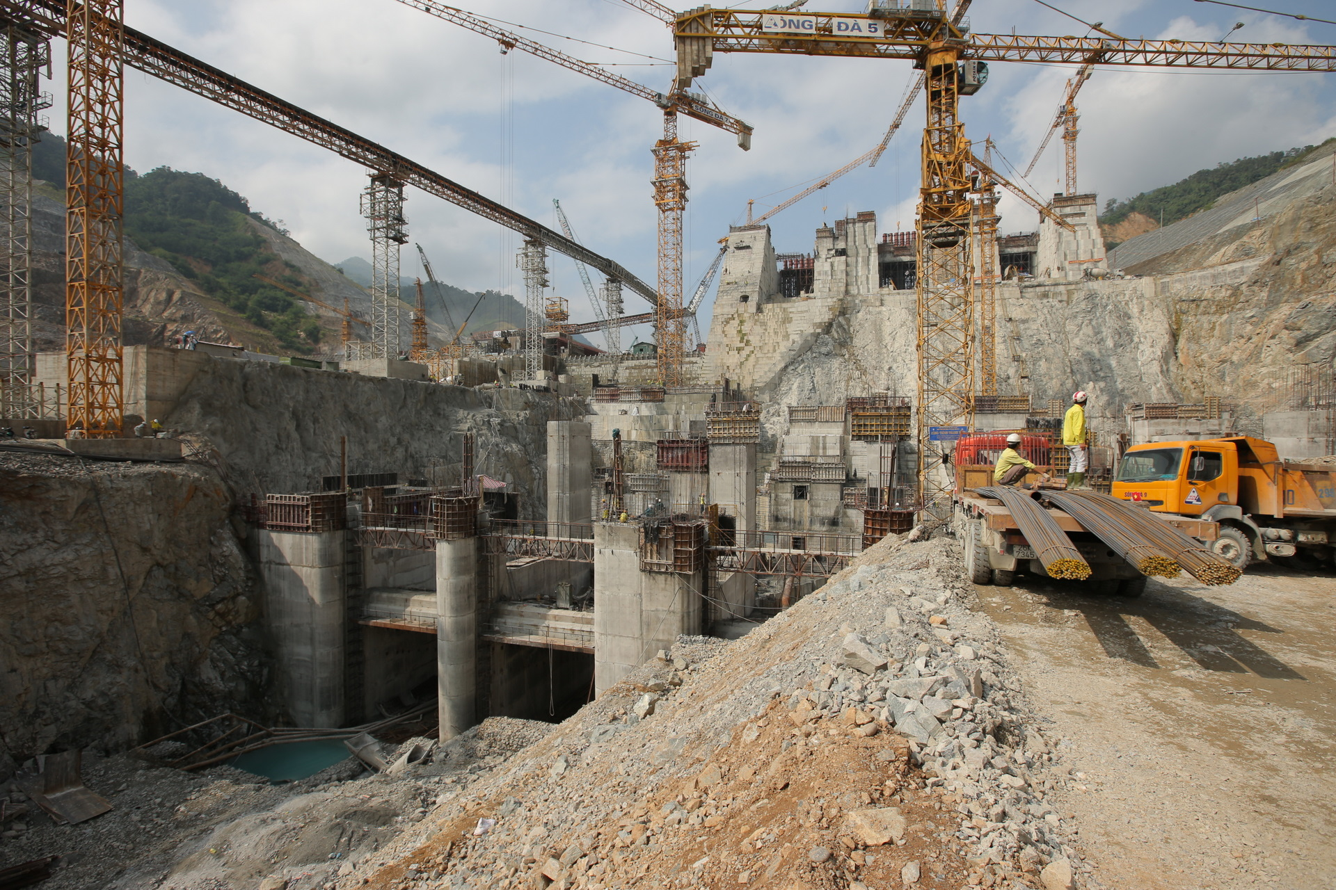 Lai Châu Dam construction in progress